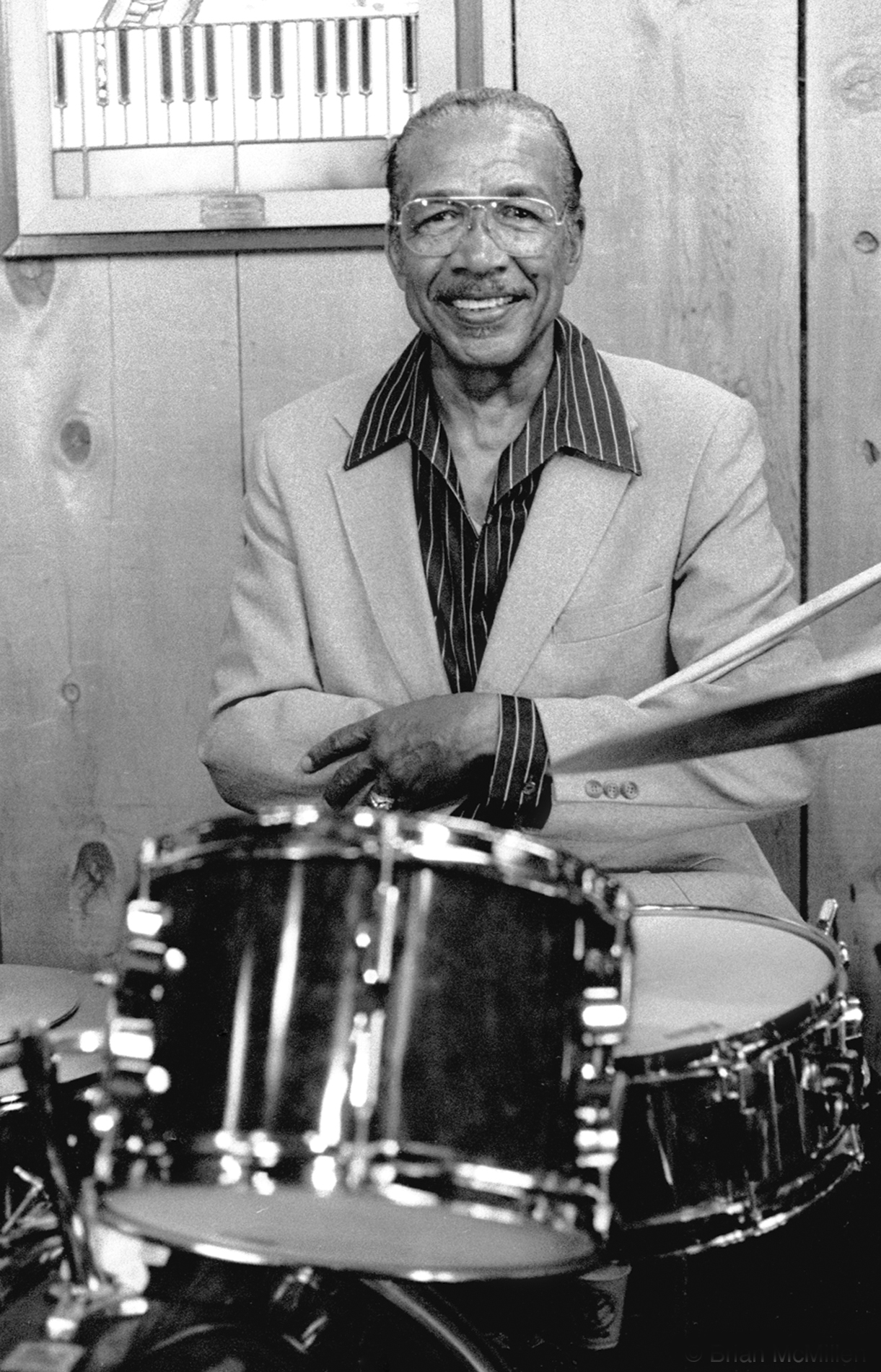 Gus Johnson at Bach Dancing & Dynamite Society, Half Moon Bay CA 1980s. Photo: Brian McMillen /